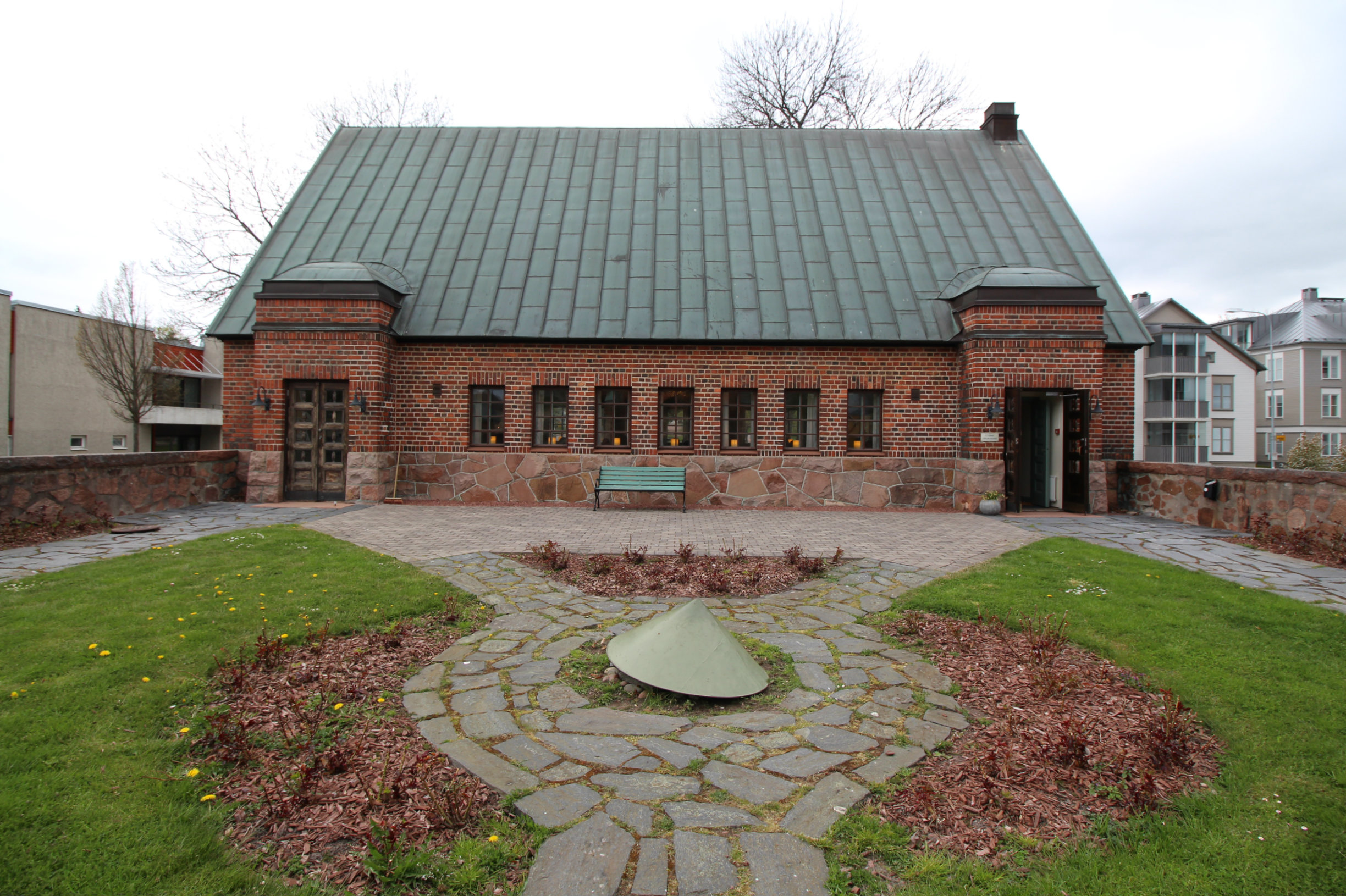 Parish house at Sankt Görans kyrka (Saint George Church) in Mariehamn, Åland (Finland).